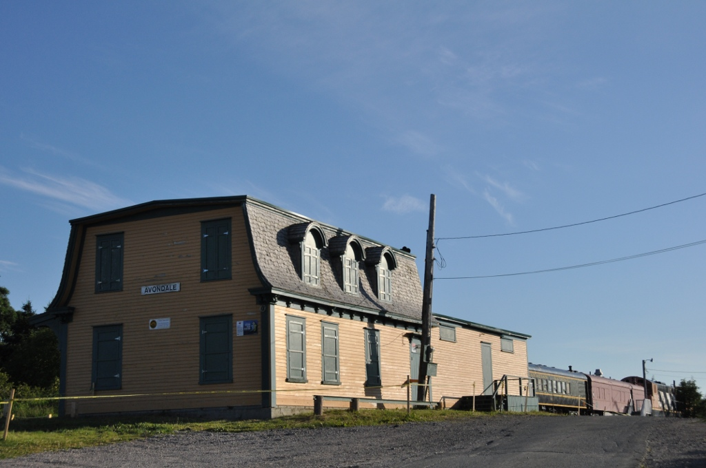 Avondale Railway Station, Avondale, Newfoundland.